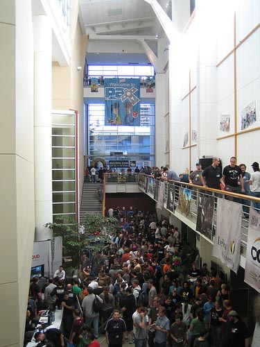 I own this image